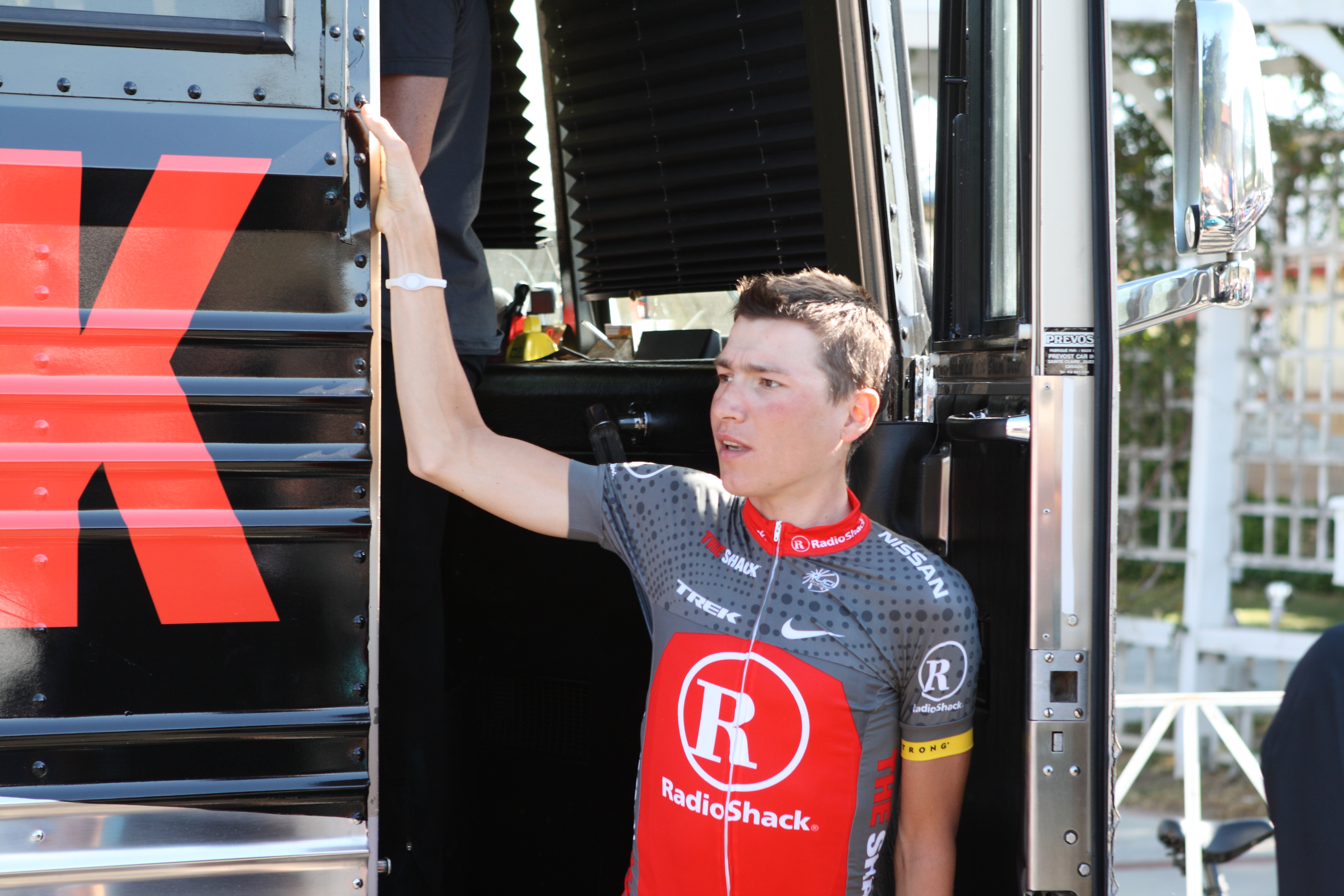 Jani Brajkovič at Tour of California 2010.